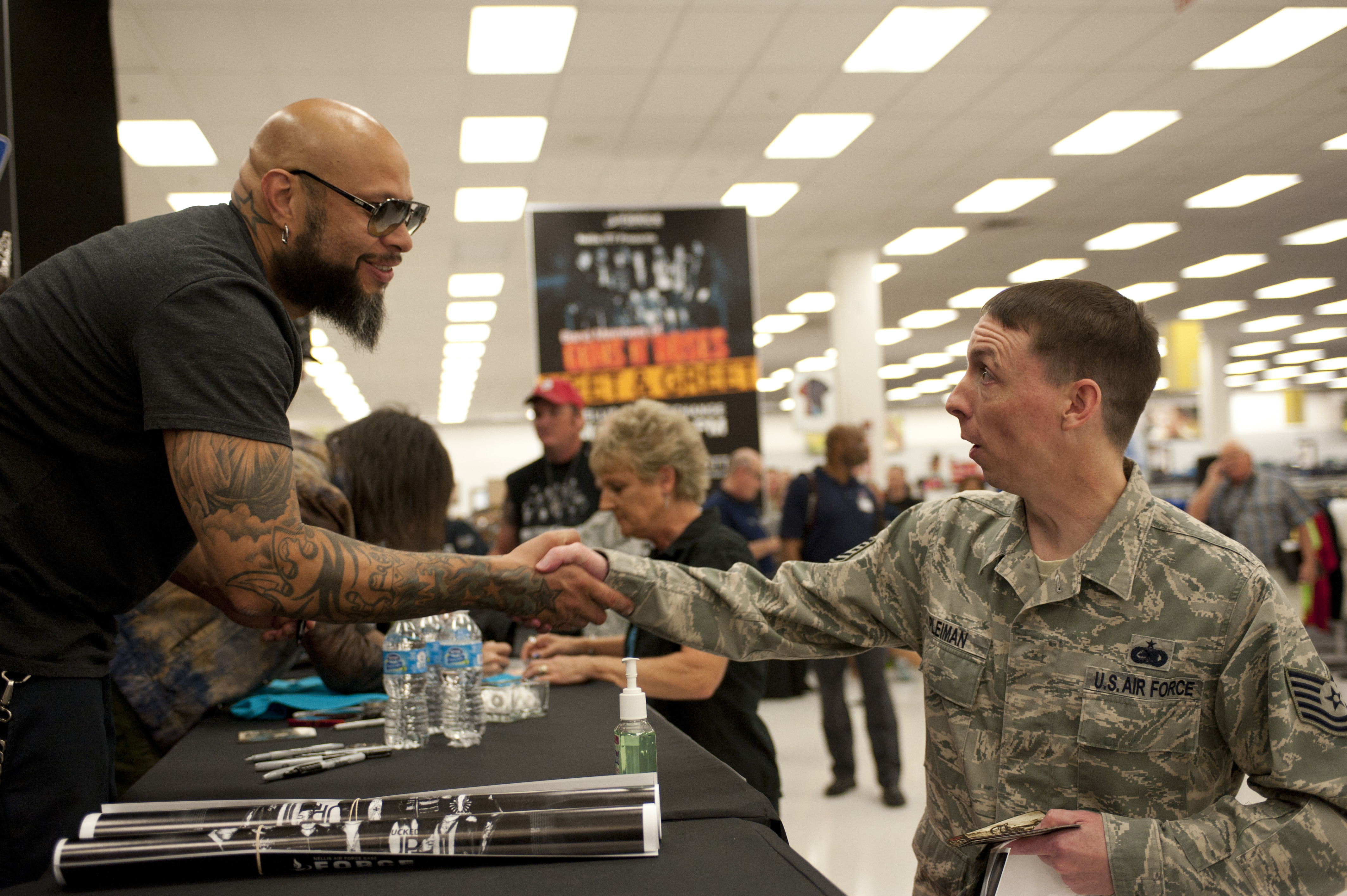 Tech. Sgt. Ronald Pleiman, 99th Logistics Readiness Squadron asset management section chief, meets Frank Ferrer, Guns N' Roses drummer, during a band meet and greet May 27, 2014, at the Exchange on Nellis Air Force Base, Nev. During the meet and great members from Guns N' Roses signed autographs and took photos with fans. (U.S. Air Force photo by Senior Airman Timothy Young)